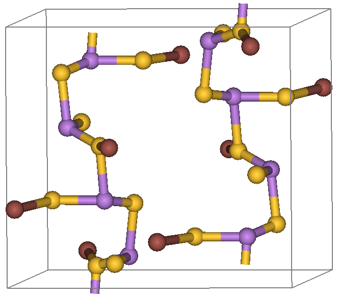 Crystal structure of mineral lorandite. Violet atoms are arsenic, yellow are sulfur and brown are thallium. Fleet M E (1973). "The crystal structure and bonding of lorandite, Tl2As2S4". Zeitschrift für Kristallographie 138: 147.